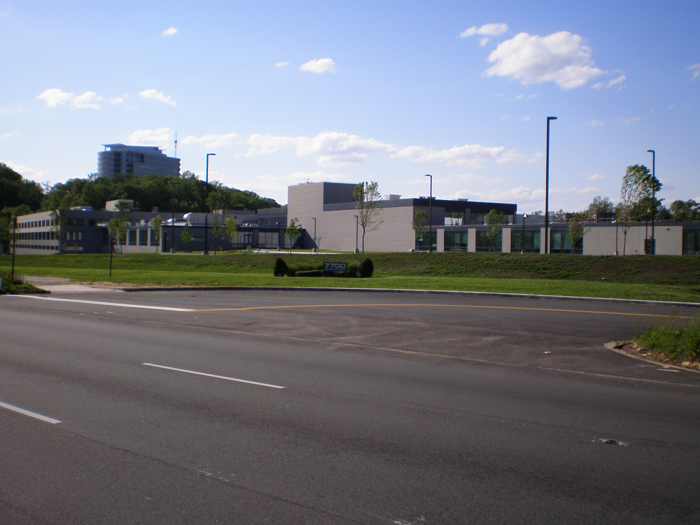 Defense Health Healthcare Headquarters located in Falls Church, VA. Locally known as the Mel-Par building.